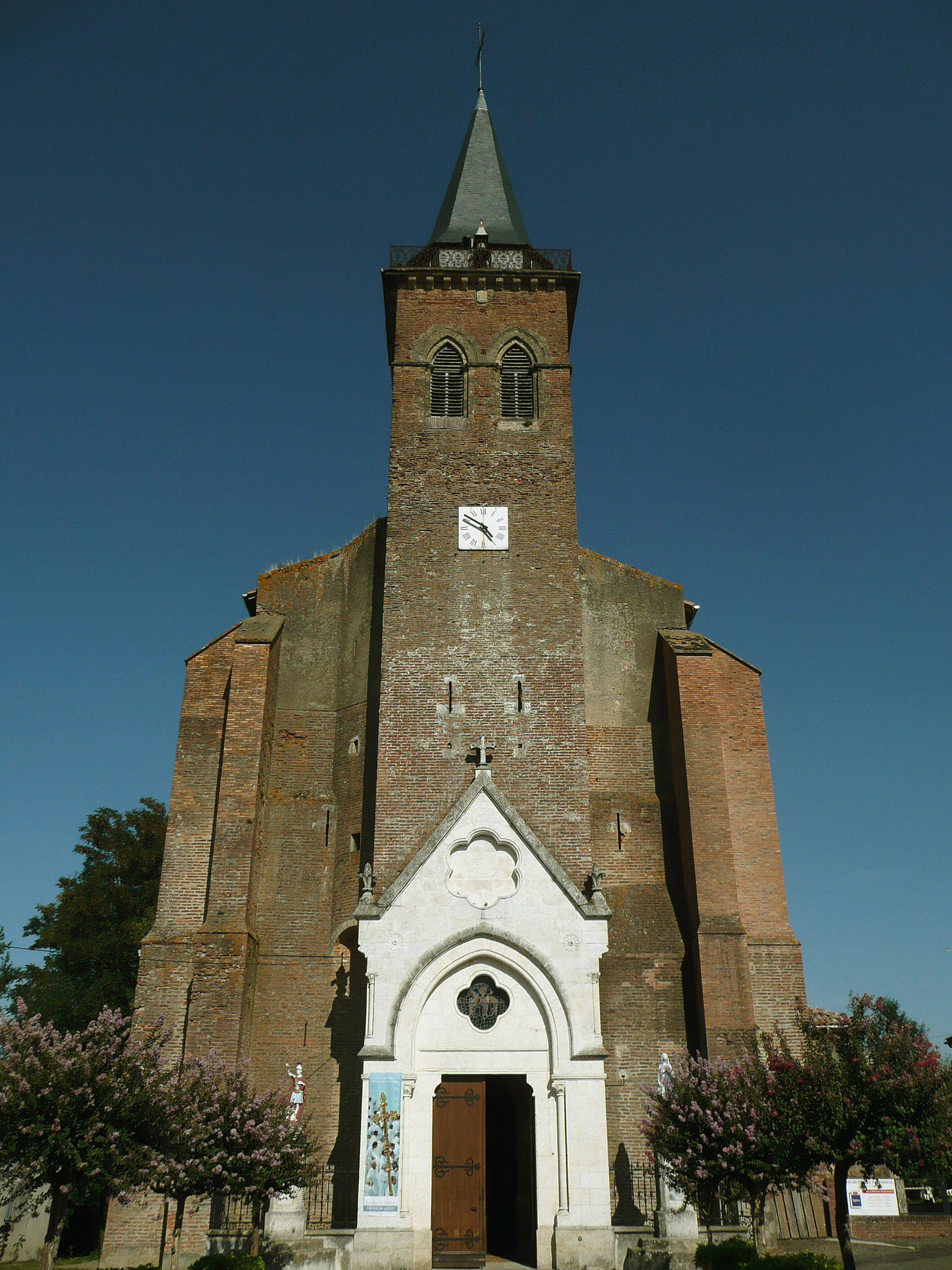 Facade of the Saint Hippolytus church of Villeneuve-de-Marsan